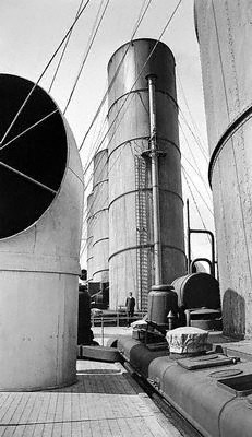 The funnel of the Mauretania.